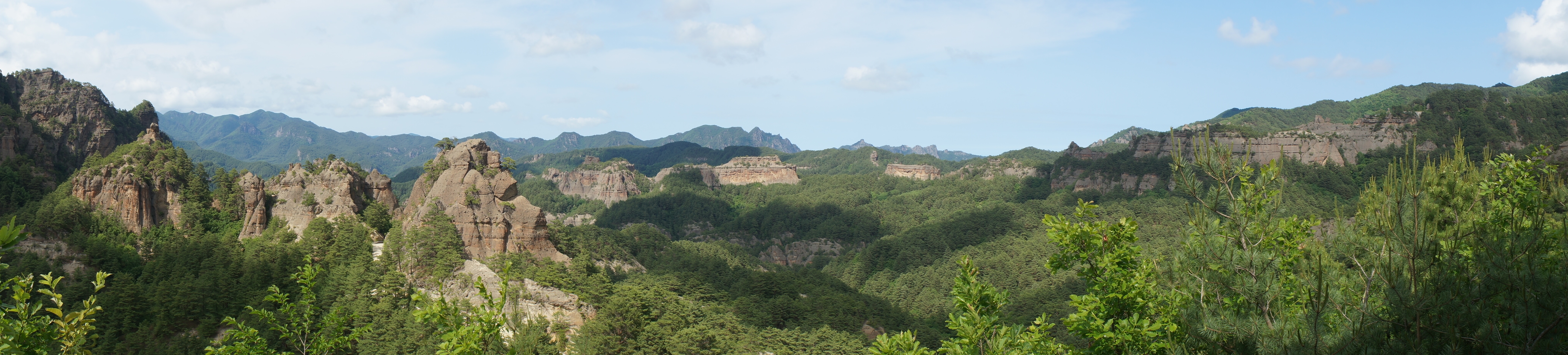 Chilbo Mountains